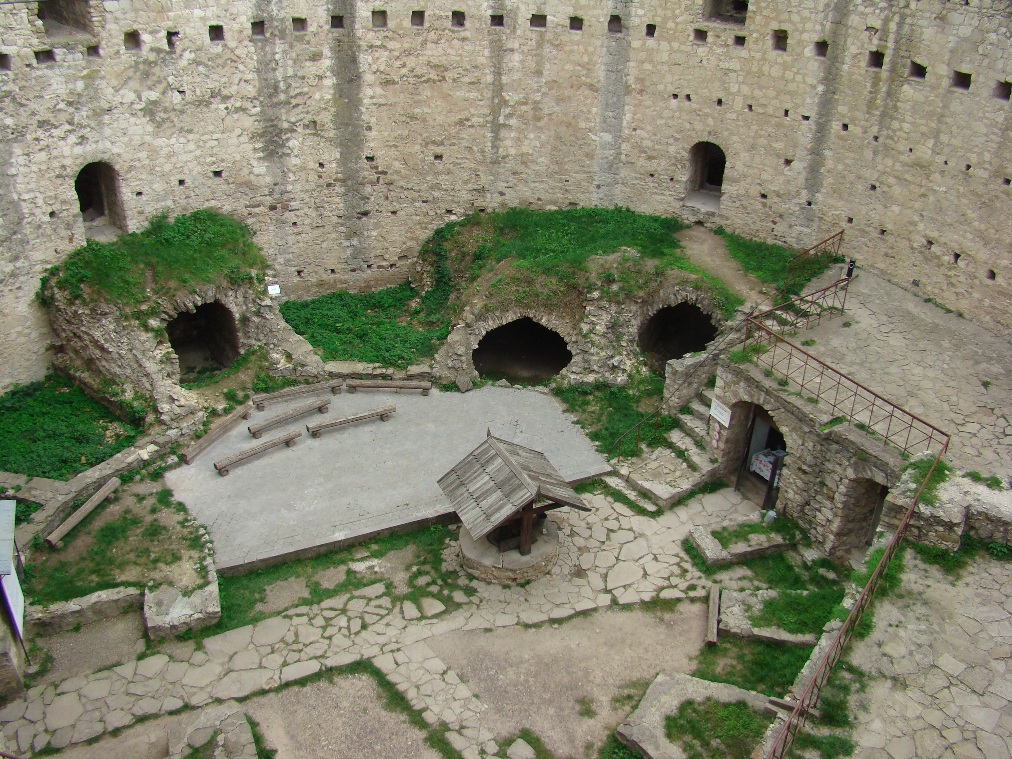 The Soroca fortress - the inner yard.